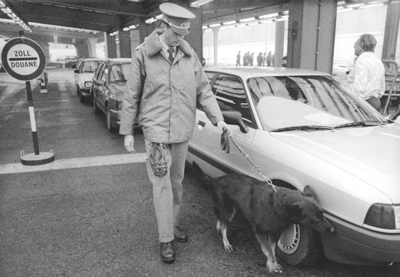 customs drug detection dog at Berlin checkpoint Heinrich-Heine-Strasse